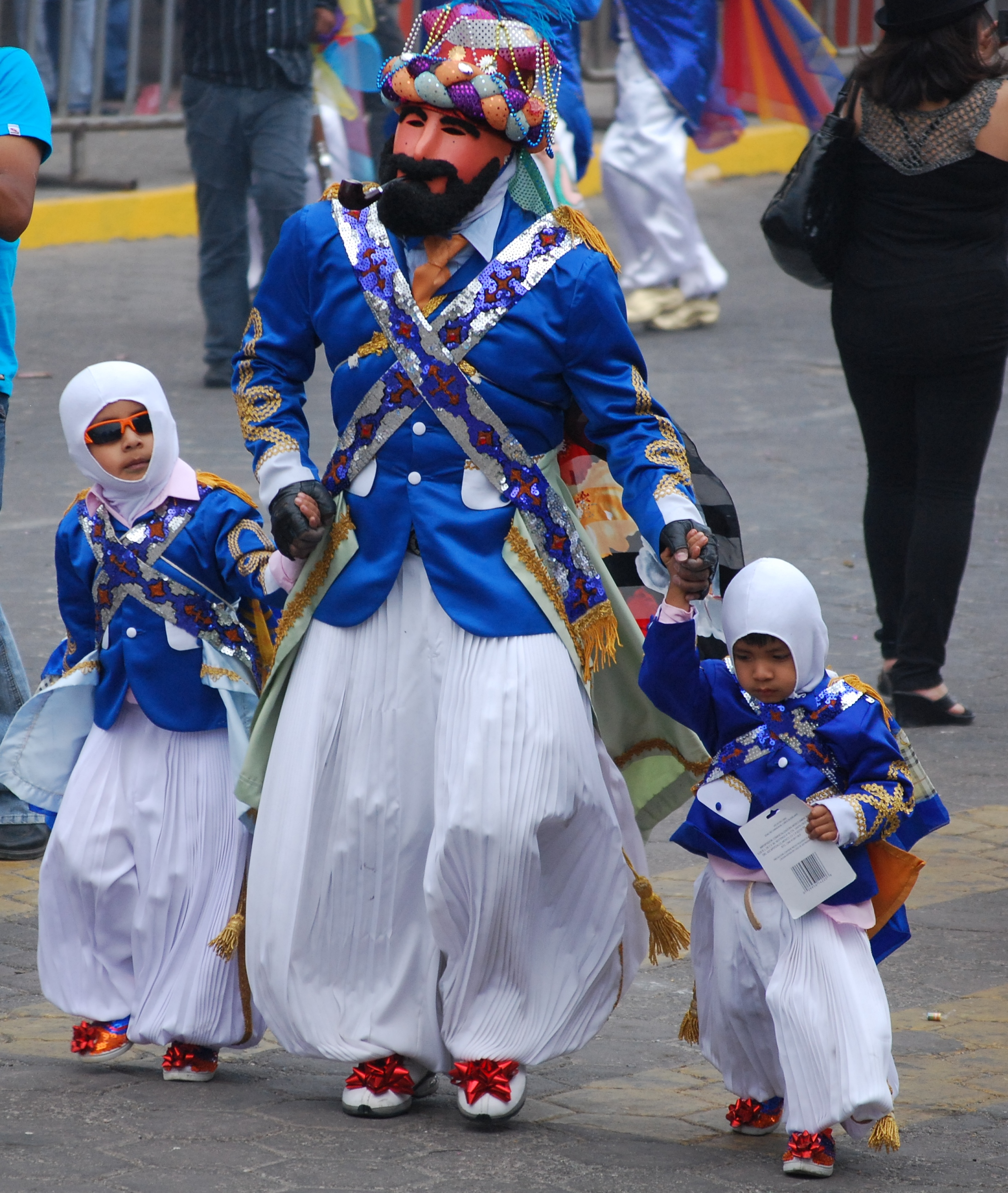 "Turk" with children at the Carnival of Huejotzingo, Puebla, Mexico